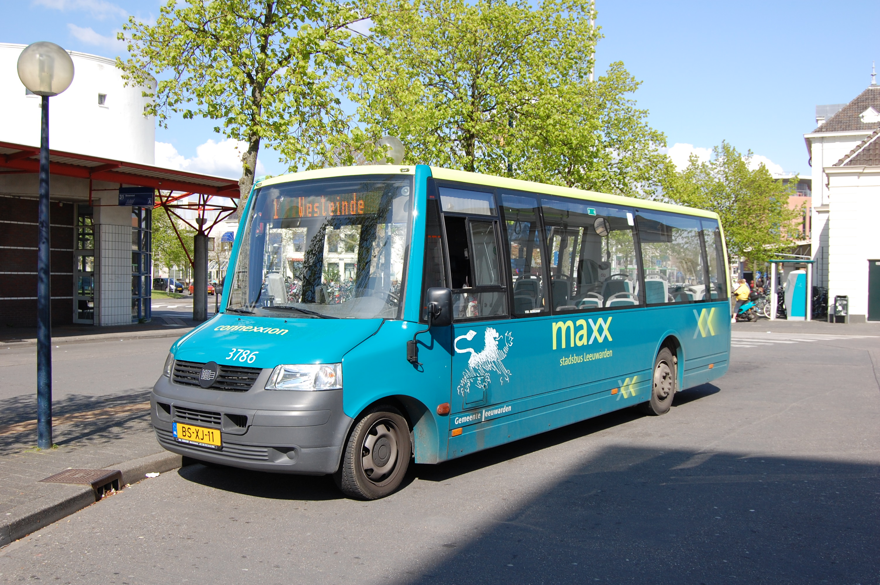 Midibus of Connexxion in Leeuwarden, Netherlands.